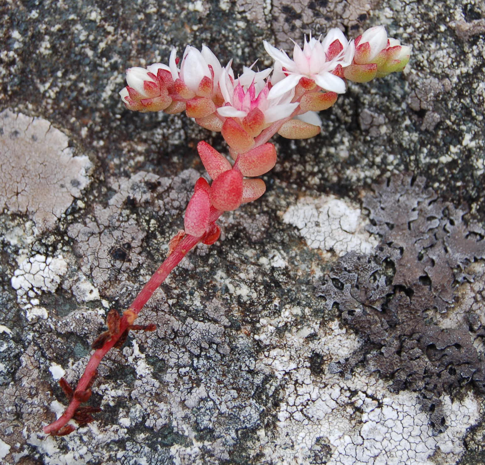 Sedum anglicum Huds.: typical inflorescence with two branches. UK, Scotland, Achmelvich, 2015-07-13